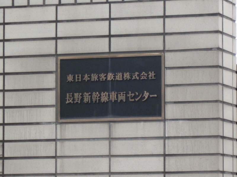 Plaque of Nagano Shinkansen Rolling Stock Center